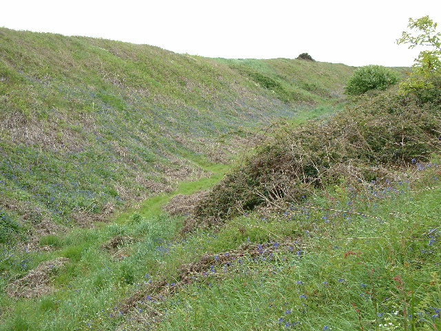 Double Dykes, Hengistbury Head. These Iron Age, Double Dykes were a defence feature built in about 100BC.